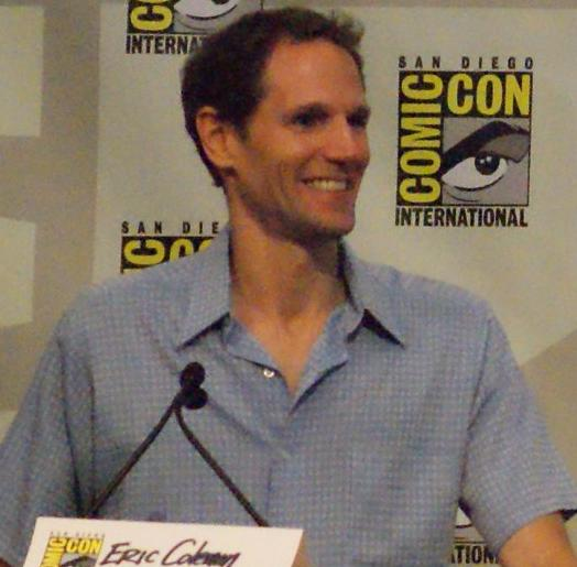 Eric Coleman at the 2009 Comic-Con International.